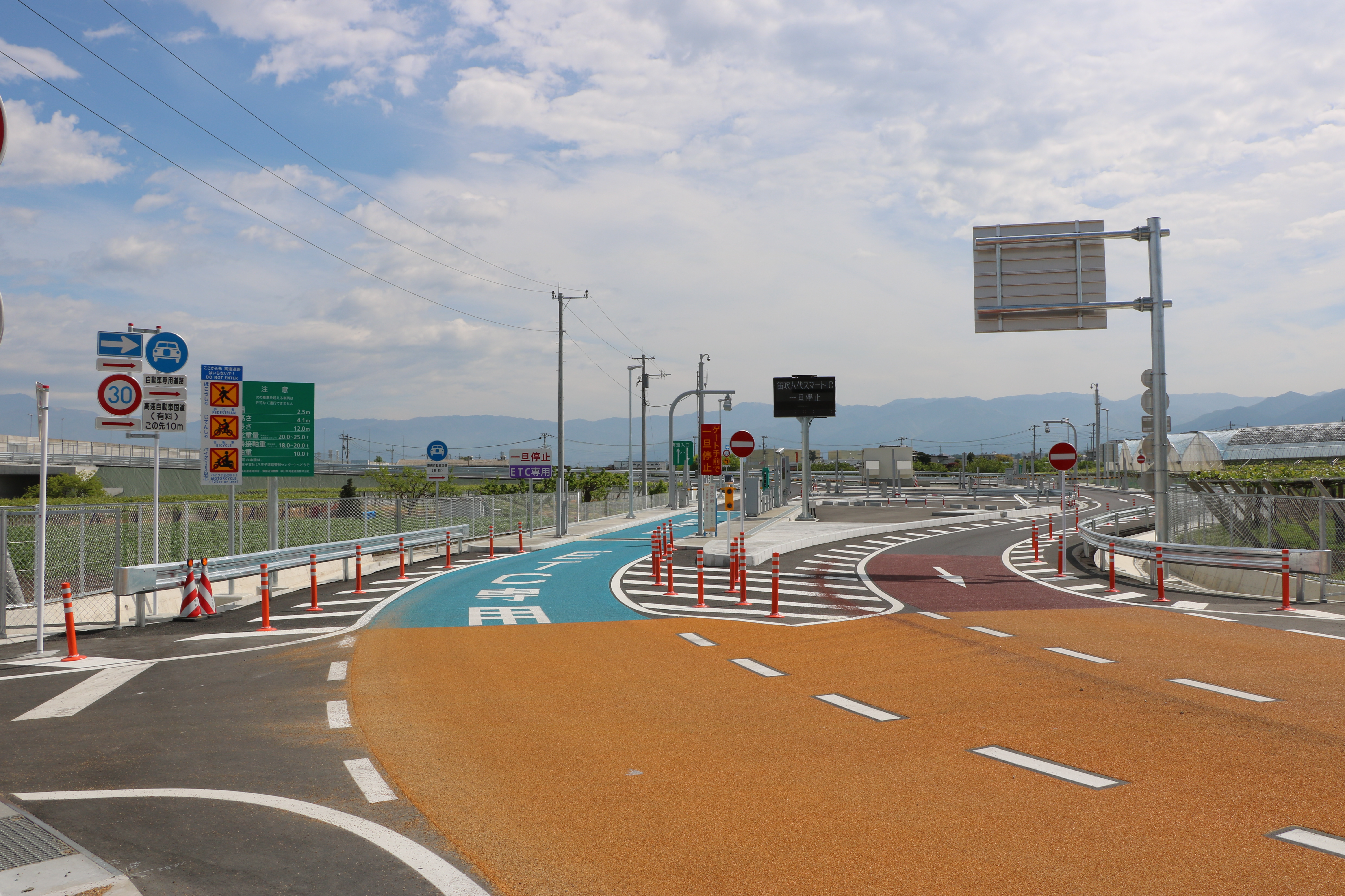 Fuefuki-Yatsushiro Smart interchange (the down line gate)